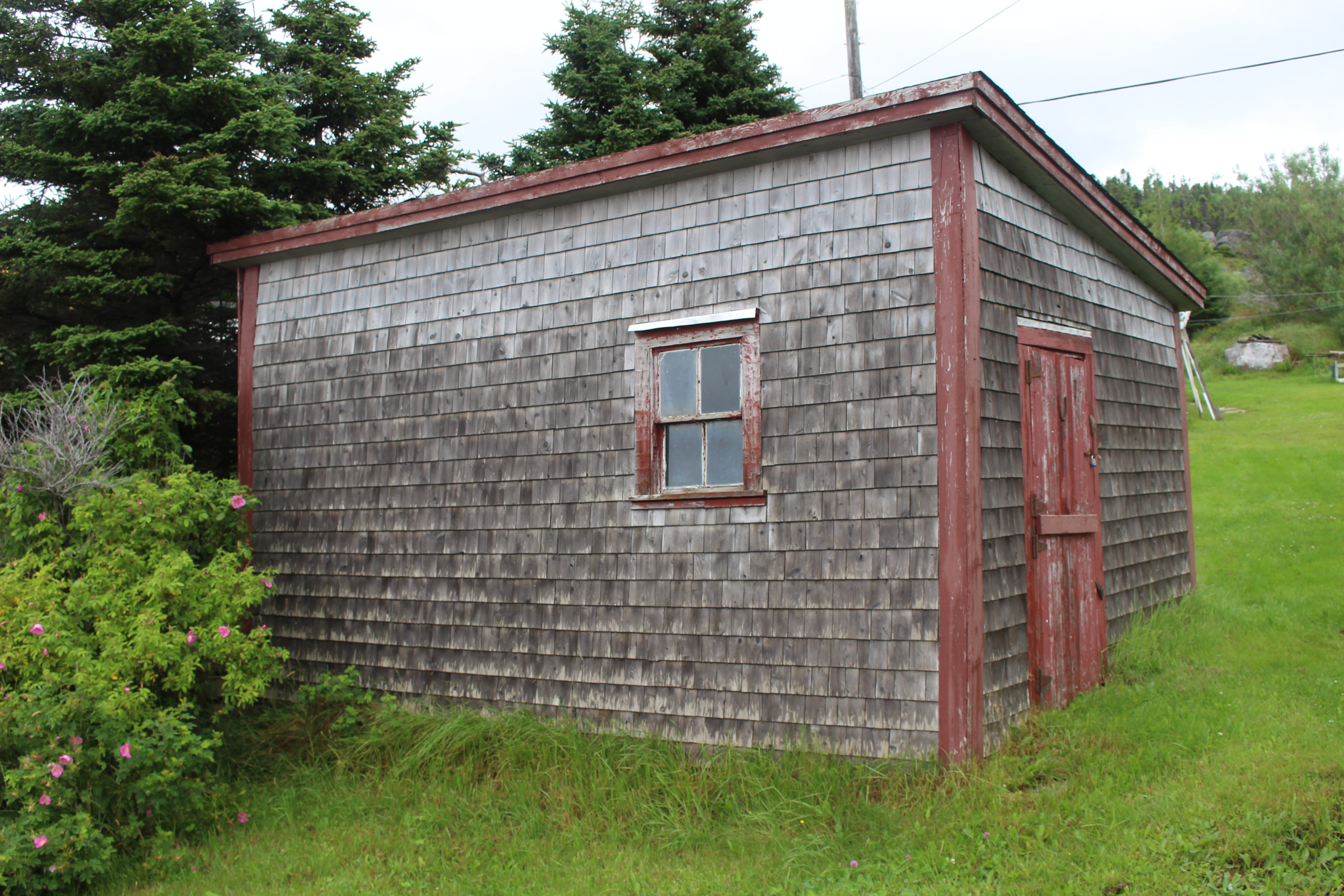 A photo of the Rendell Forge in Heart's Content, Newfoundland, taken 27 July 2020 by Dale Gilbert Jarvis